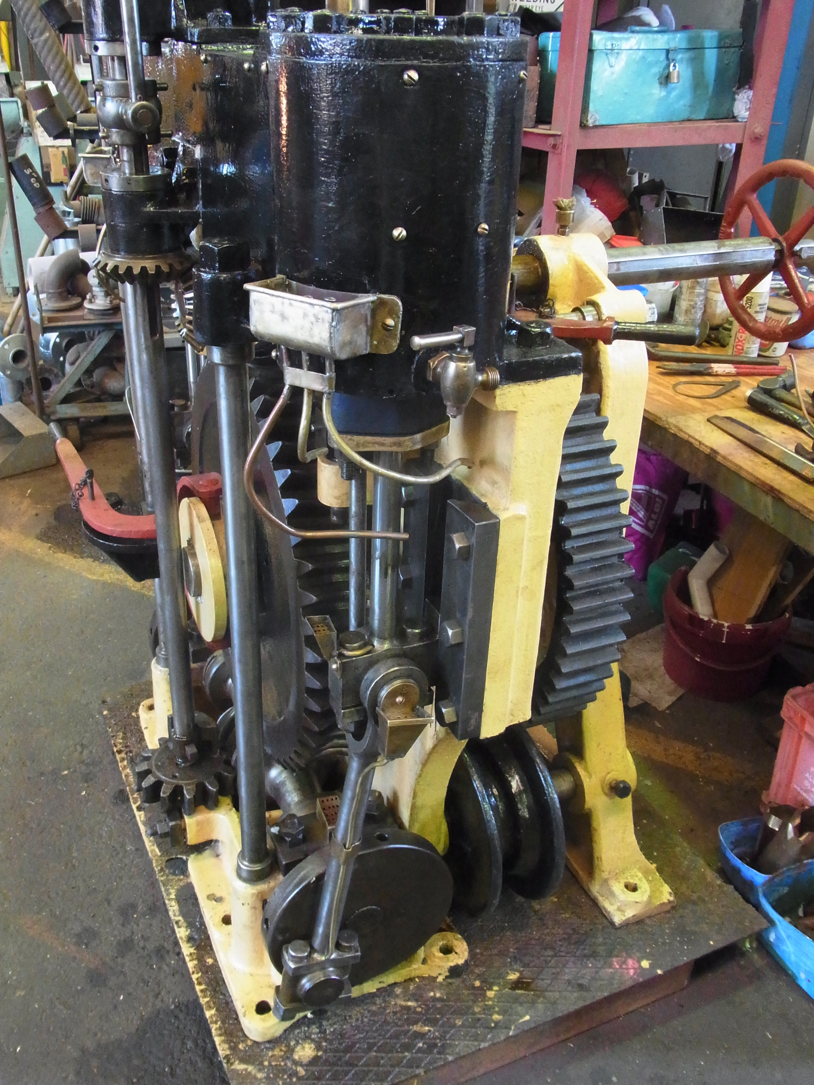 Restored steam powered steering engine for the John Oxley